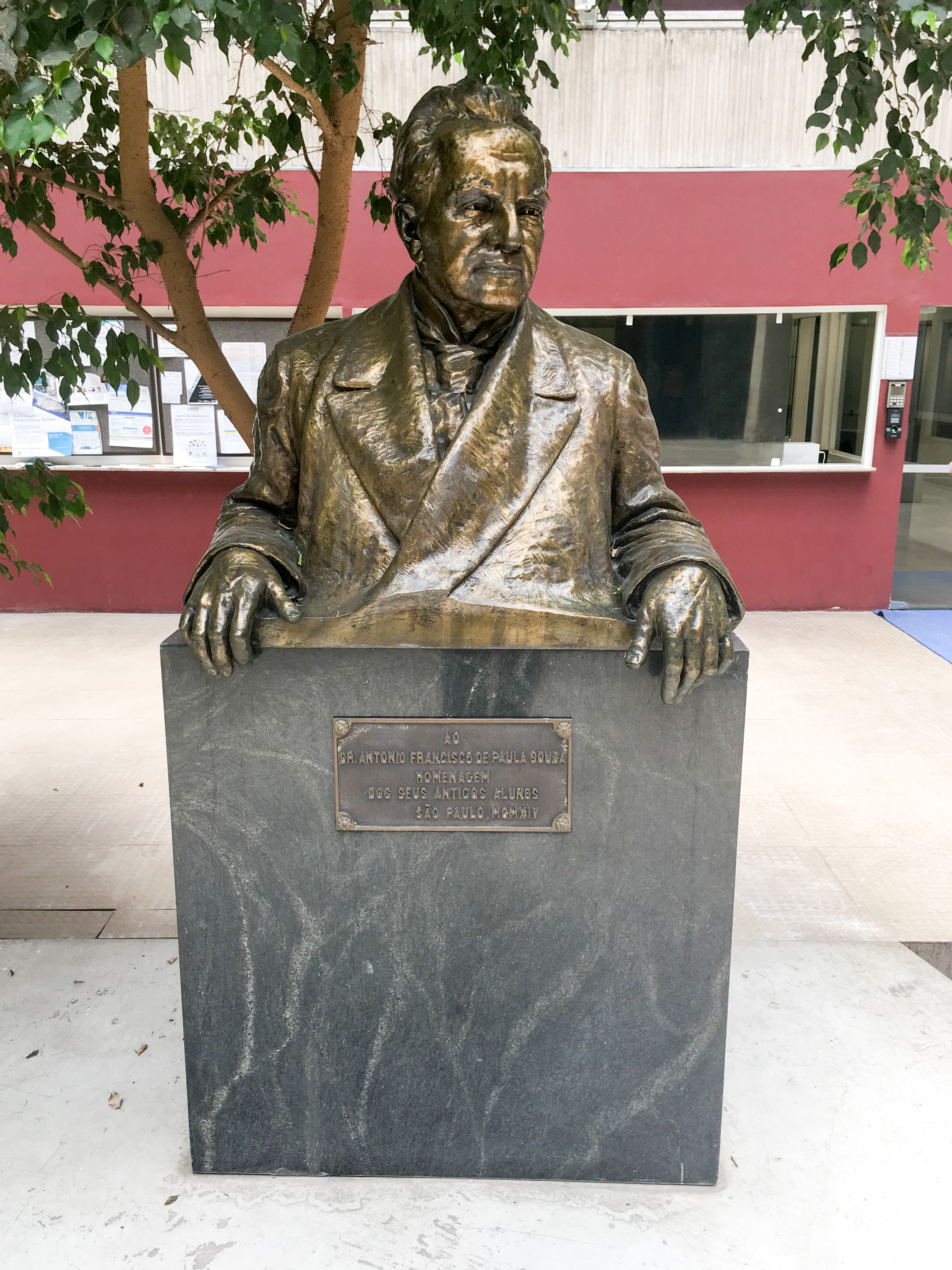 Dr Antonio Francisco de Paula Souza. Homenagem dos seus antigos alunos, Sao Paulo, MDMBIV. . Engenharia civil, Escola Politechnica da Universidade de São Paulo, São Paulo, Brazil Engenharia civil, Escola Politechnica da Universidade de Sao Paulo